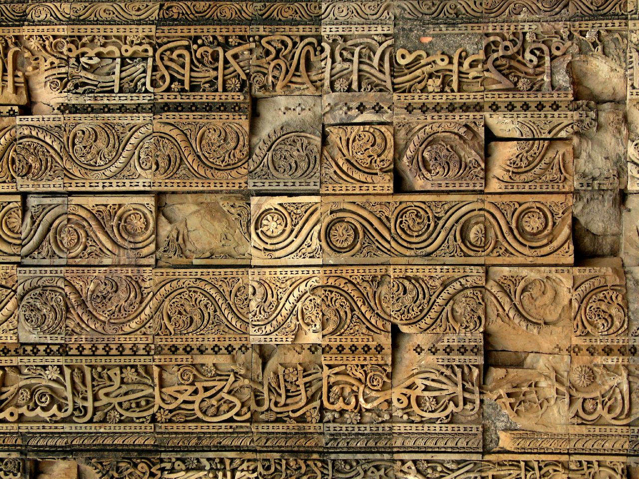 Calligraphy on the arches of Quwwat Ul-Islam mosque, Qtub minar complex.